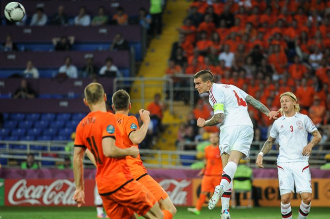 UEFA Euro 2012 match between Netherlands and Denmark that took place in Kharkiv. Final result was 0:1 (Krohn-Delhi)